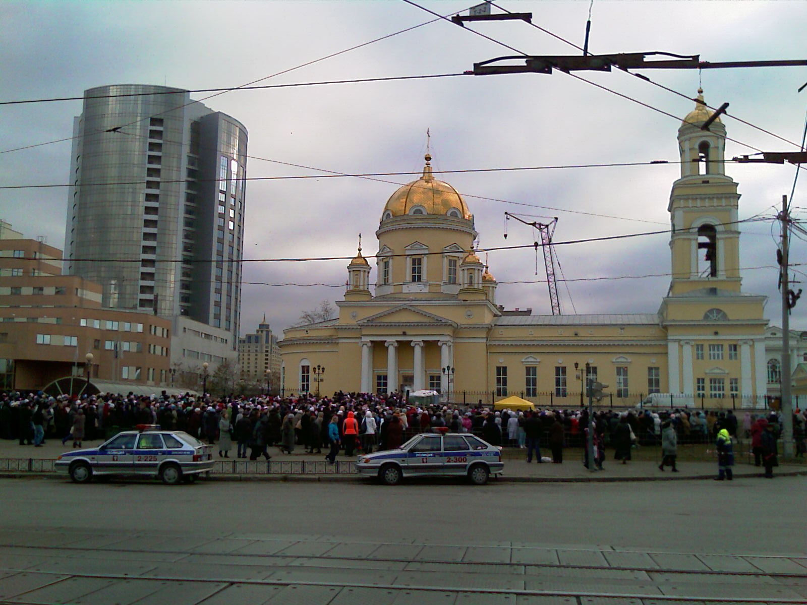 Thousands of piligrims gather in Ekaterinburg to worship Cincture of the Virgin Mary exposed at the city'sTrinity Cathedral on 24–27.10.2011